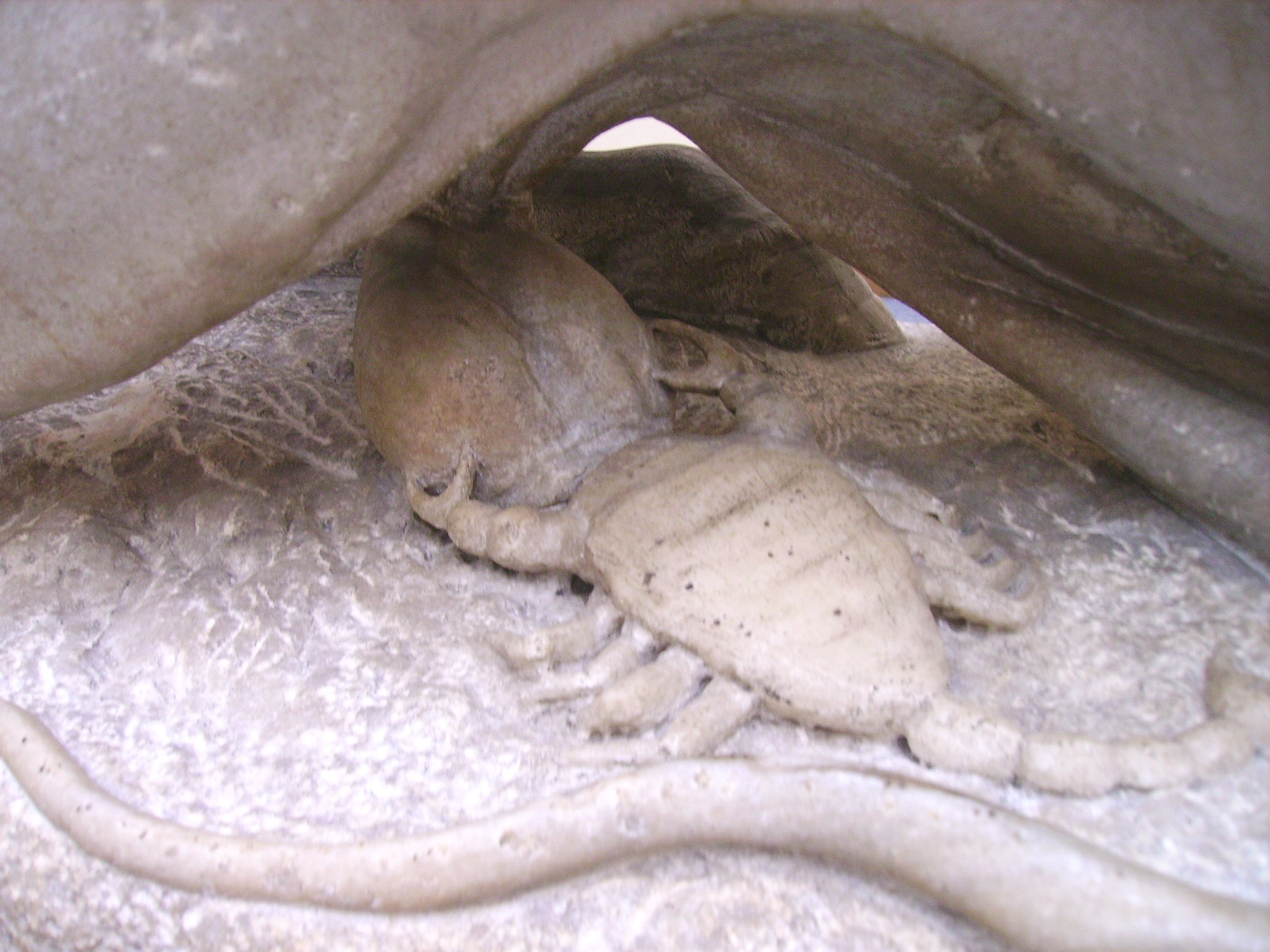 The Scorpion pinching the Bull's testicles. Detail from an Ancient Roman statue depicting "Mithras slaying the Bull".